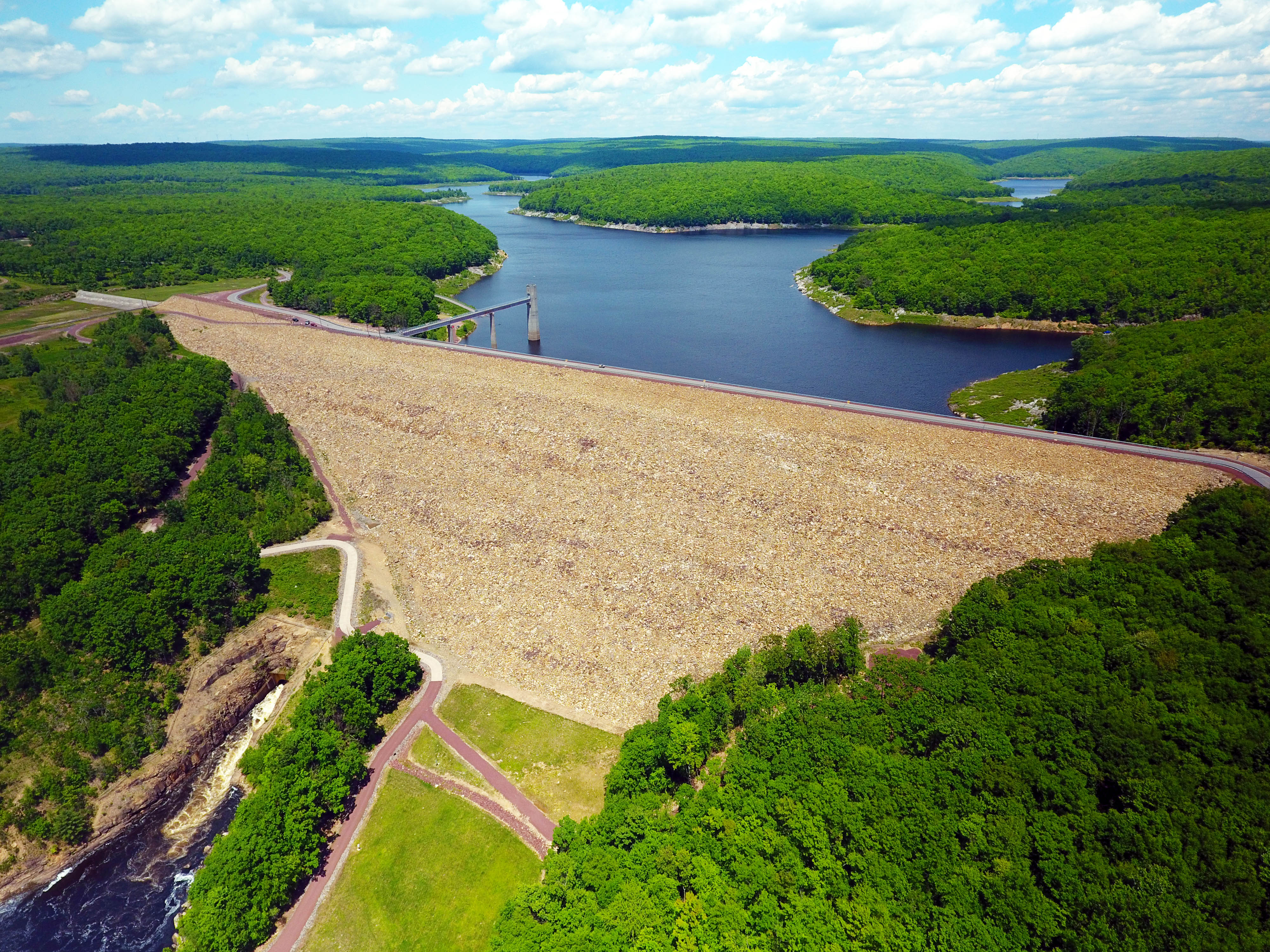 Aerial photograph of the Francis E. Walter Dam and Reservoir, as taken from the outlet-side of the dam. The outlet flow is visible in the bottom-left corner.